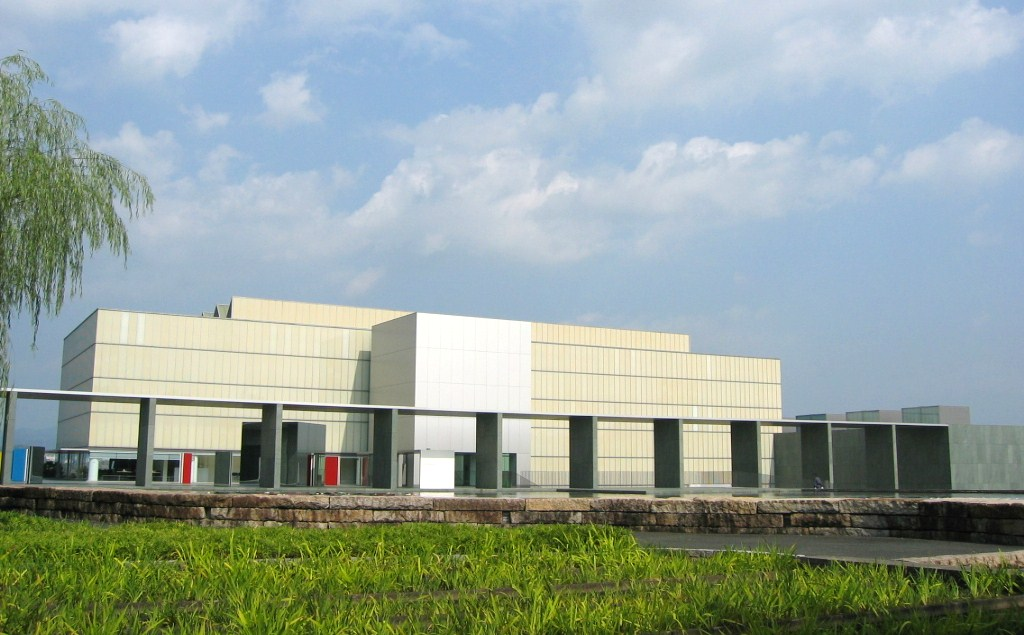 Toyota Munichipal Museum of Art